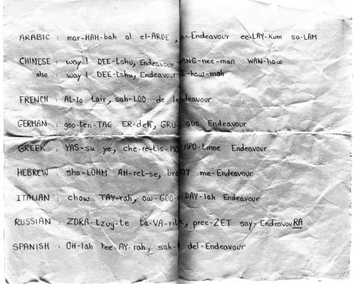 A sheet of paper with phrase "Hello Earth, greetings from Endeavour" written by Farouk El-Baz for Alfred Worden in nine languages.